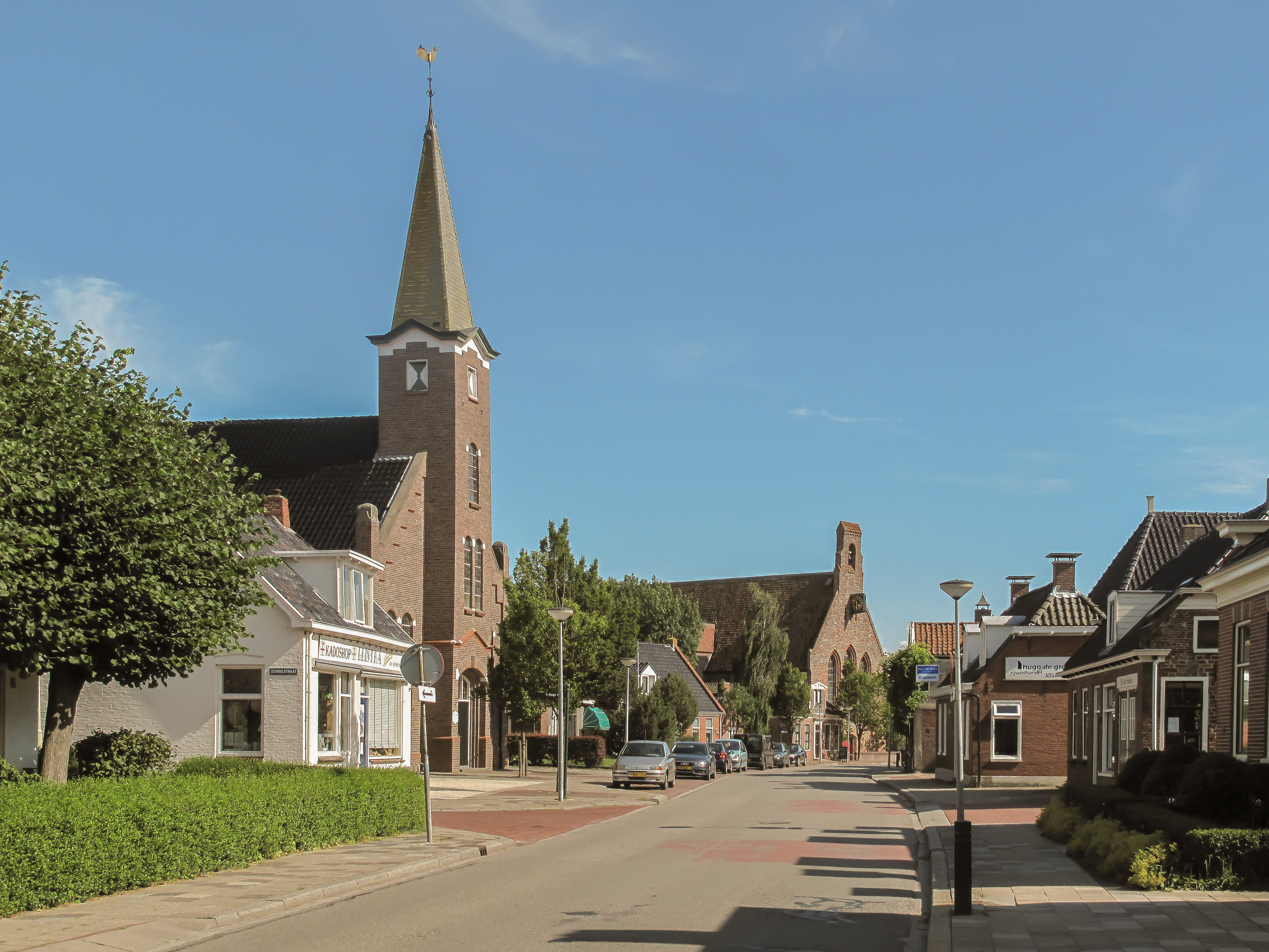 Aduard, two churches in the street